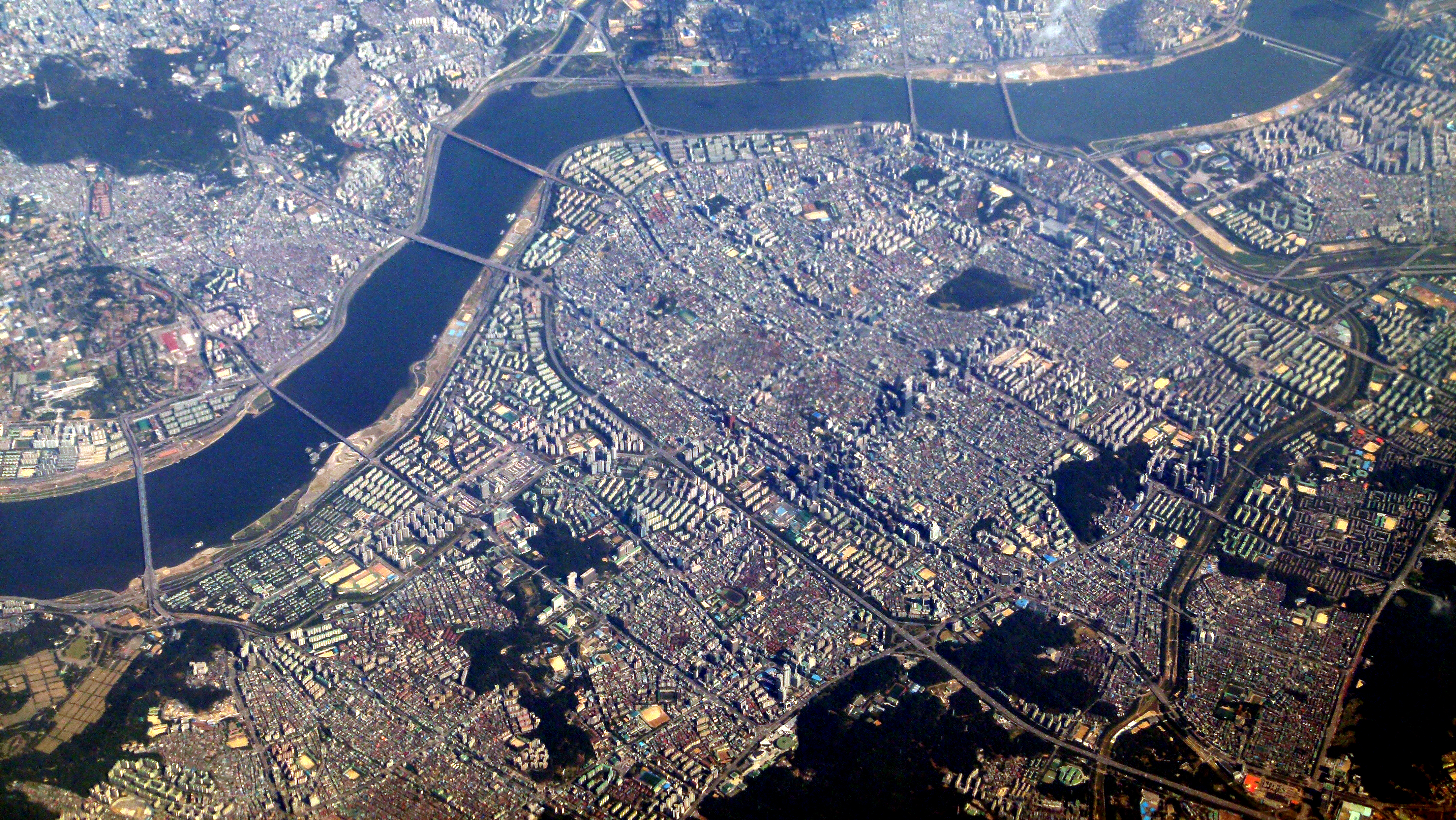 Southern districts (Gangnam, Seocho) of Seoul, South Korea